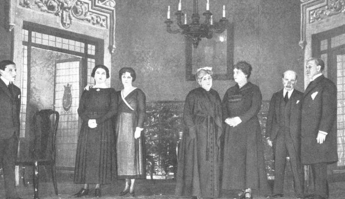 Elenco de actores que interpretaron la obra de teatro La Inmaculada de los Dolores, de Jacinto Benavente en el Teatro Lara de Madrid en 1918.